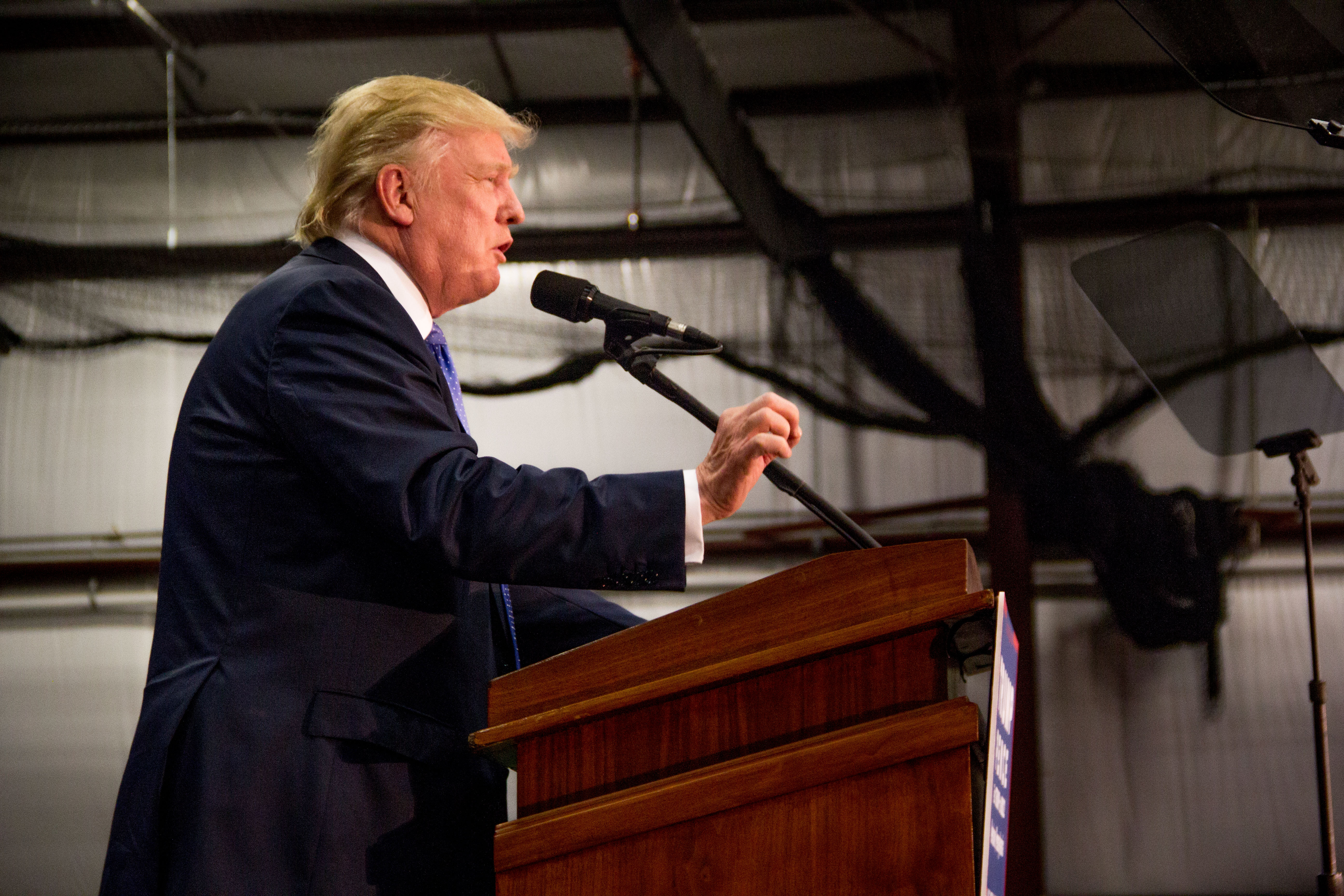 GOP Presidential nominee Donald Trump holds a rally in Newtown, Bucks County, PA, Friday, October 21, 2016. Voter turnout in the Philadelphia suburbs will be crucial for both campaigns.